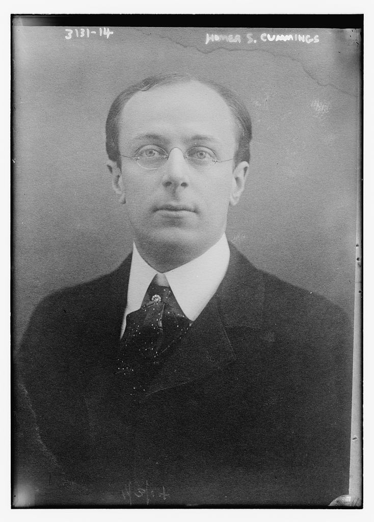 Homer S. Cummings in 1914 Bain News Service,, publisher. Homer S. Cummings [between ca. 1910 and ca. 1915] 1 negative : glass ; 5 x 7 in. or smaller. Notes: Title from unverified data provided by the Bain News Service on the negatives or caption cards. Forms part of: George Grantham Bain Collection (Library of Congress). Format: Glass negatives. Repository: Library of Congress, Prints and Photographs Division, Washington, D.C. 20540 USA, General information about the Bain Collection is available at Persistent URL: Call Number: LC-B2- 3131-14